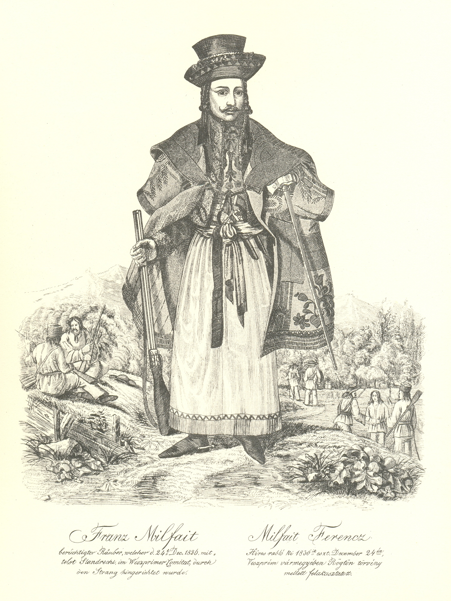 Ferenc Milfait, one of the most dangerous Hungarian betyárs (muggers and rougers in 19th century)